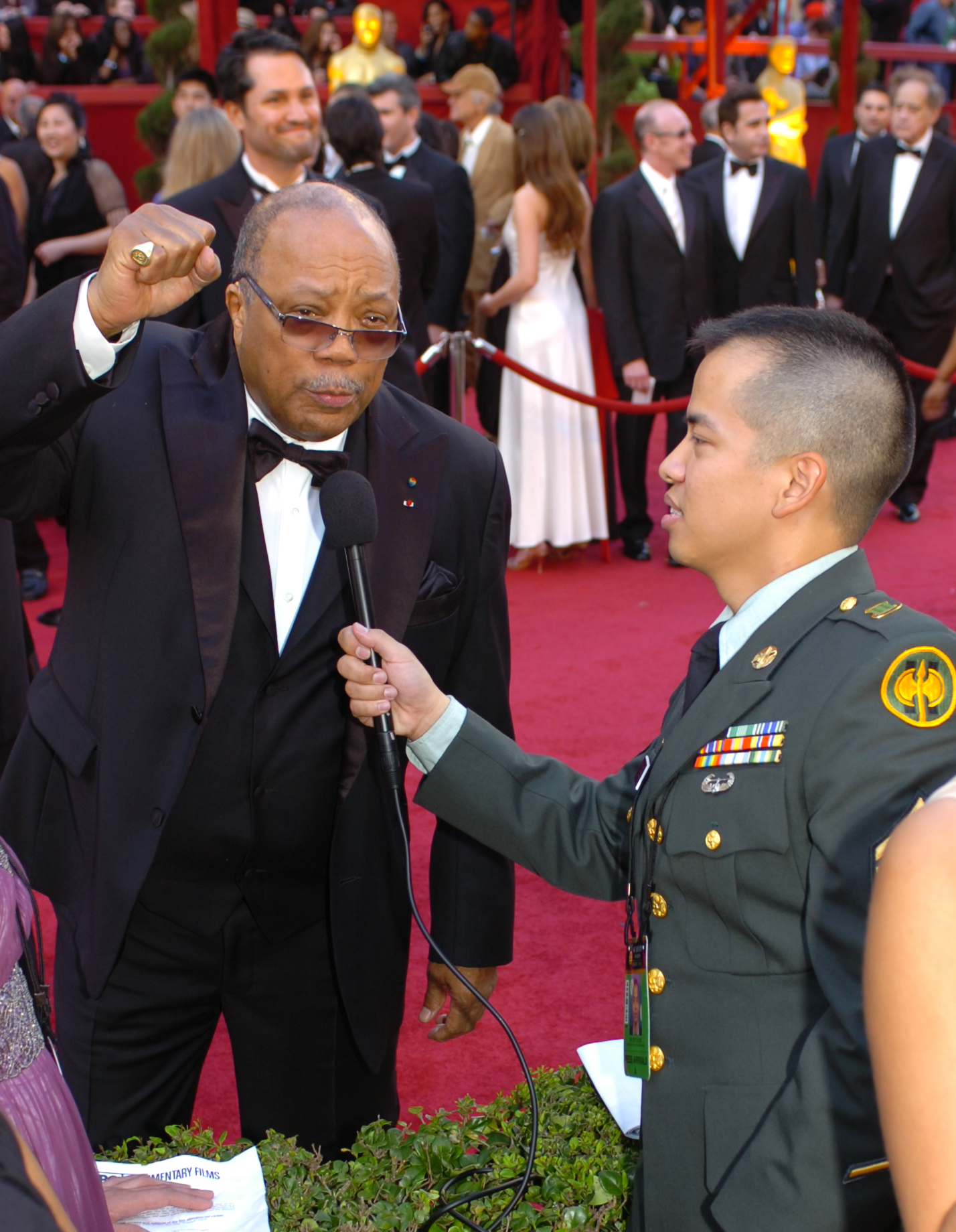 Quincy Jones supports the troops on the red carpet at the 82nd Academy Awards.